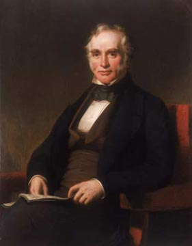 George Holt, senior, Liverpool cotton-broker and merchant. Died 1861. Oil on canvas, 1851, artist unknown.